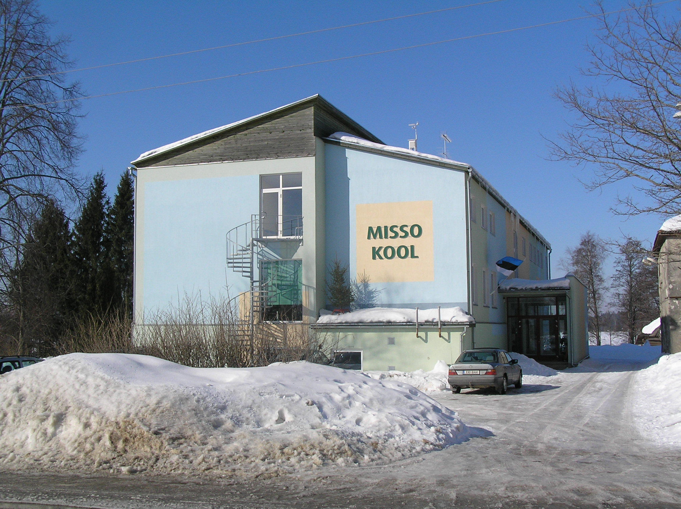 Misso school